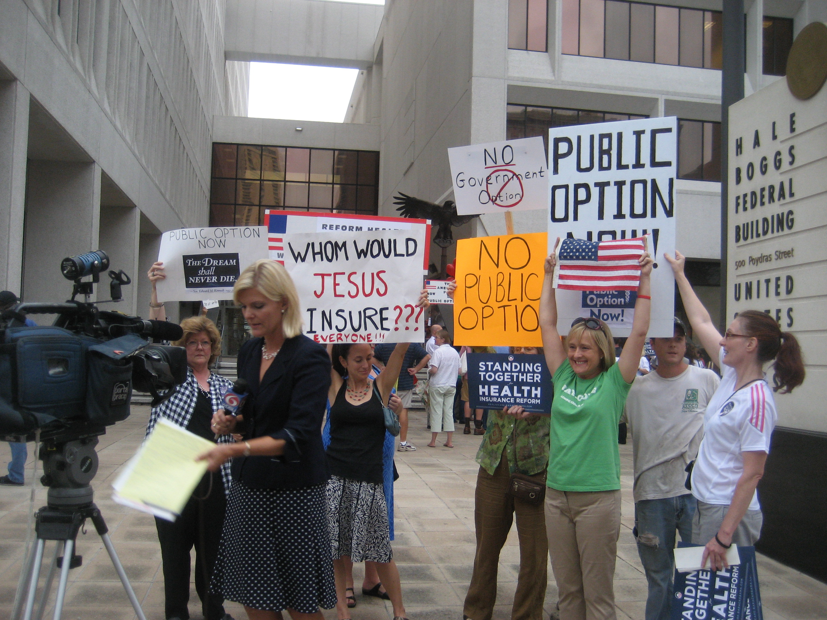 Pro and anti healthcare protesters vie for space in front of televison camera. Demonstration for health care in front of the Hale Boggs Federal Building, Poydras Street, New Orleans